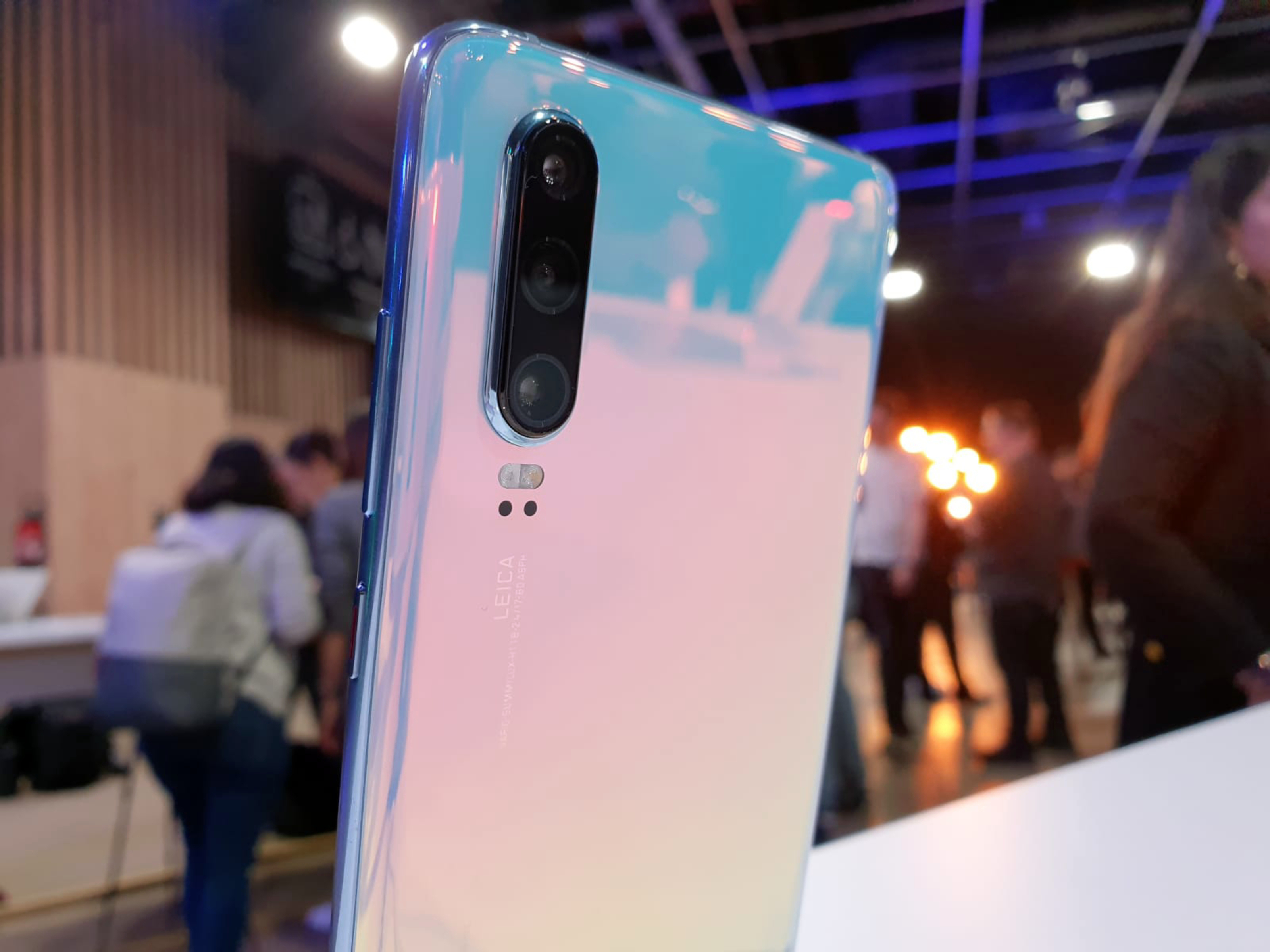 Huawei P30 at the launch event in Paris